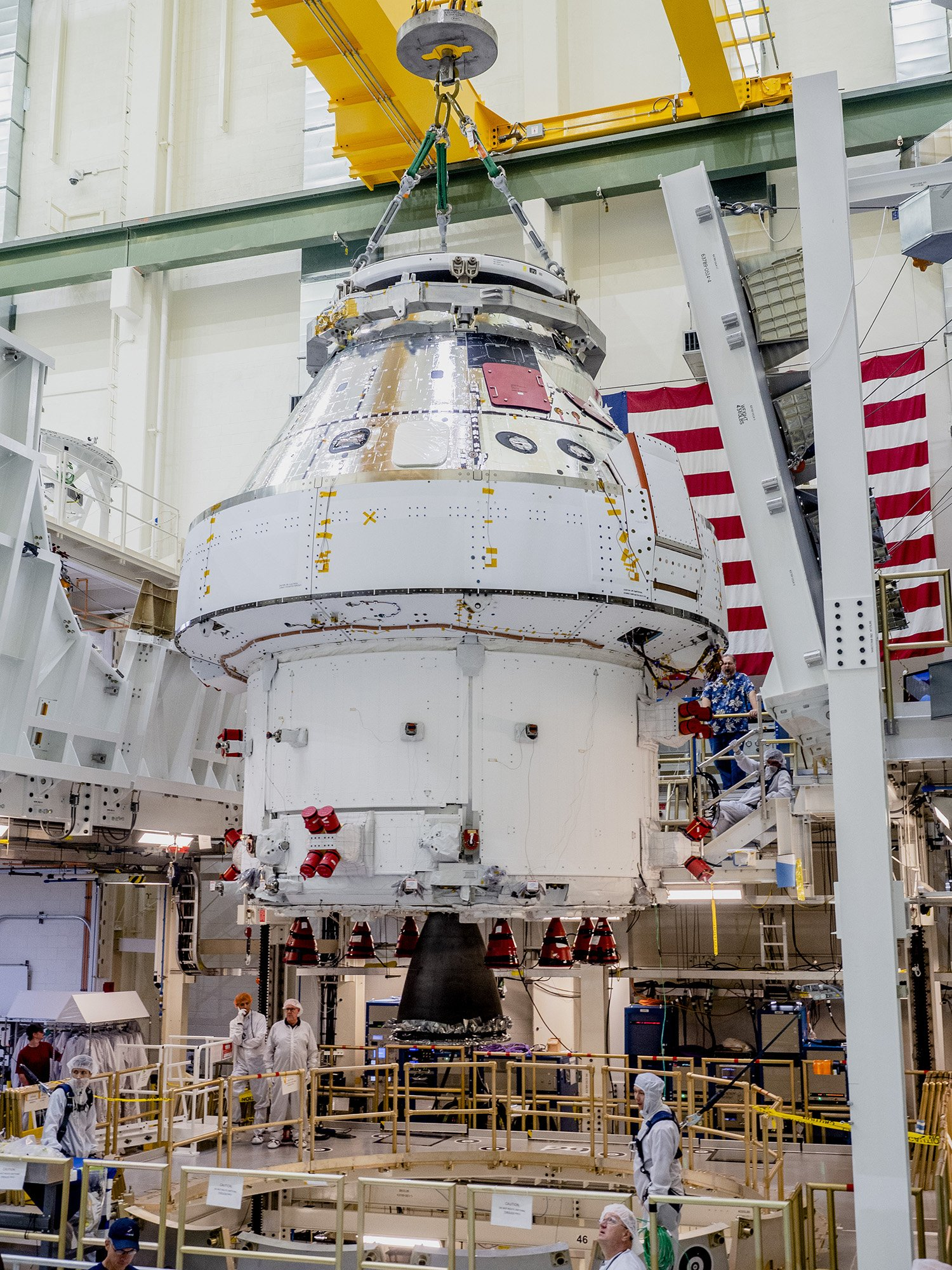 Artemis I Orion being lifted from the final assembly area in preparations for shipping to Ohio for Plum Brook Testing which will be the spacecraft's final testing period. Once Plum Brook is done and over with, Orion will return to KSC for final assembly which includes mating with the LAS which has already been assembled. then turnover to EGS and the flight of Artemis I